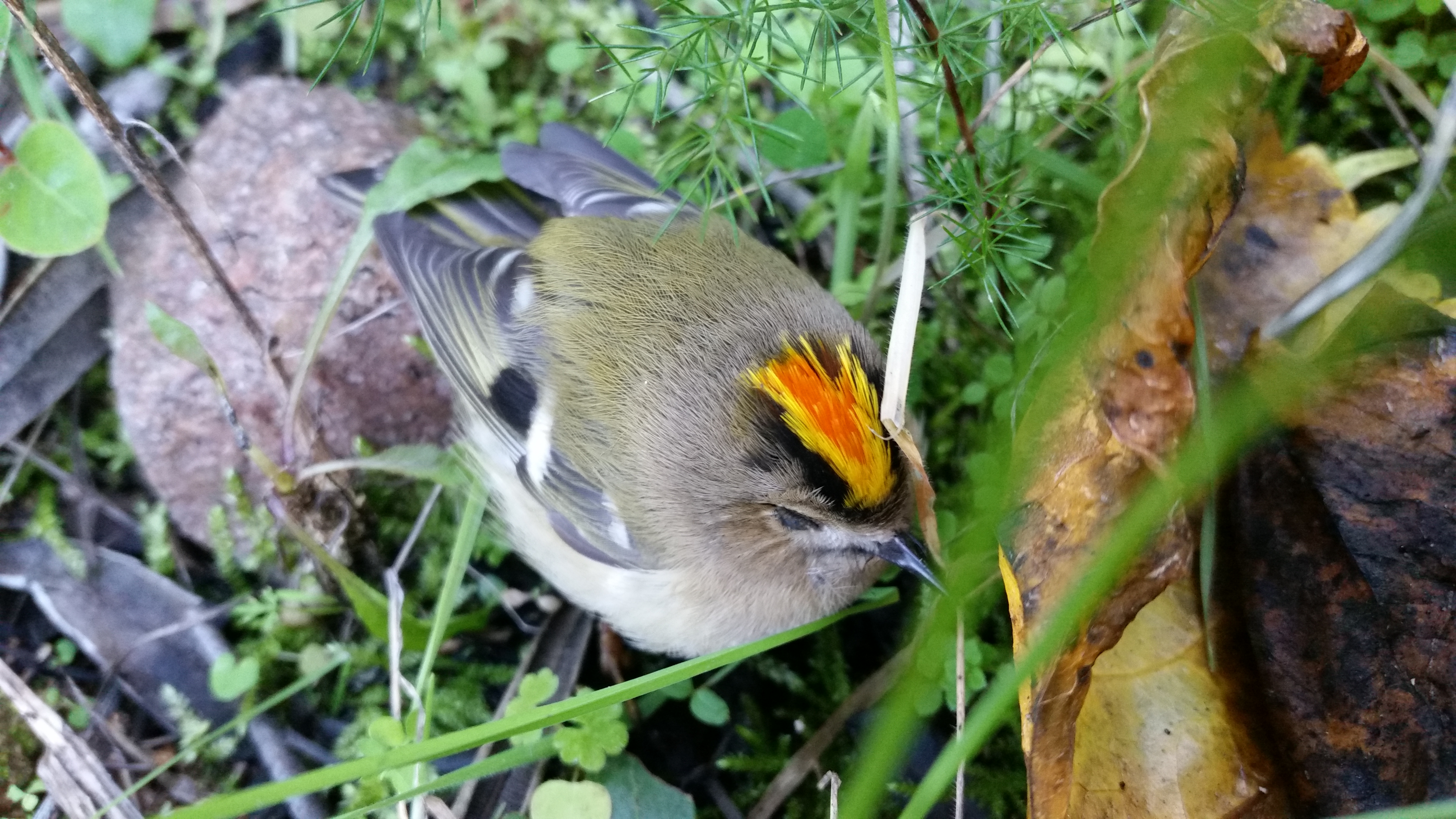 régulus regulus fromage Corsica